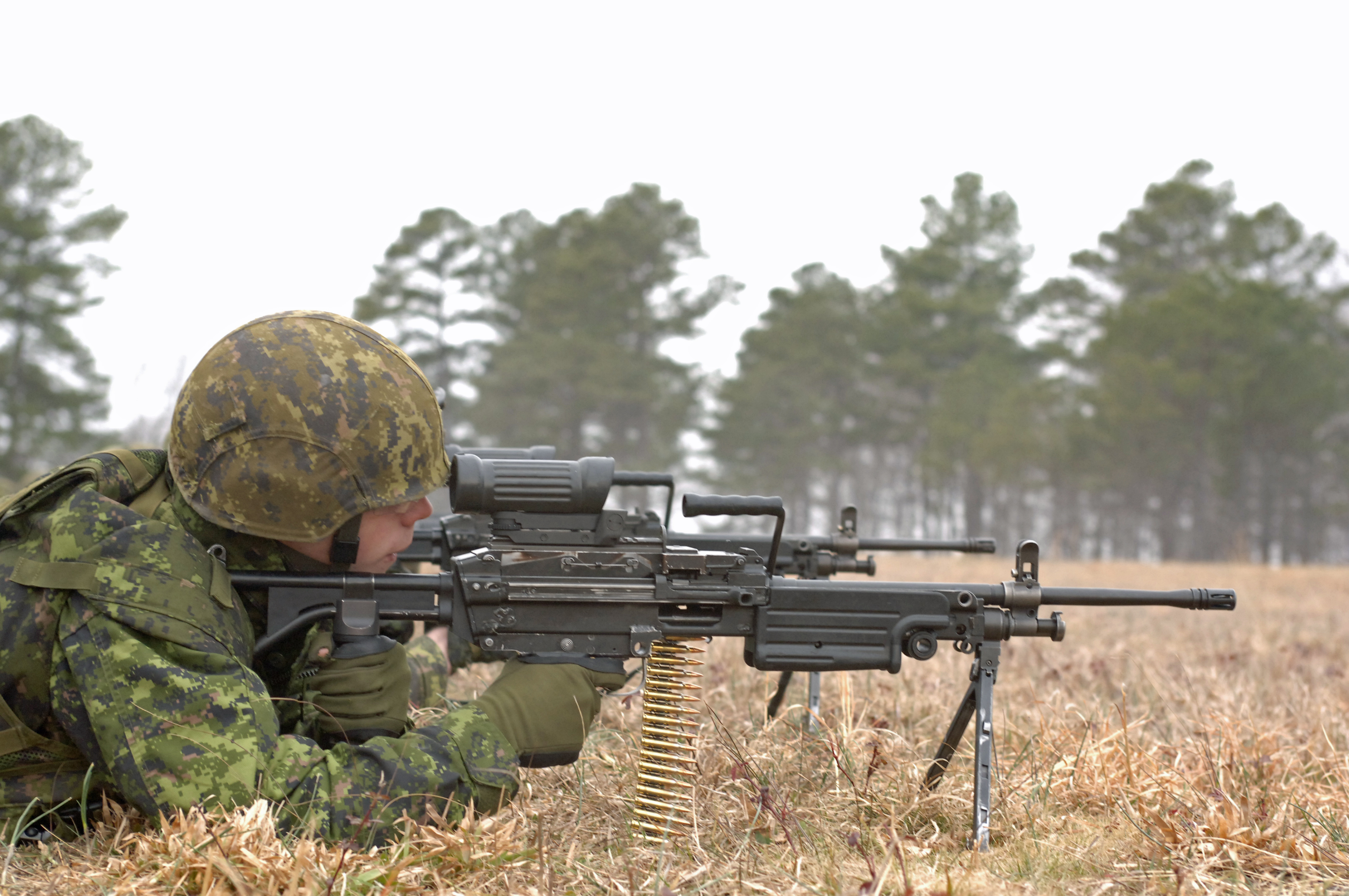 Canadian Army Pte. Jesse Mackenzie, from 1st Battalion, Nova Scotia Highlanders (North), adjusts the sights, on his C9, machine gun, at the range, while participating in Exercise Southbound Trooper IX, at Fort Pickett, Va. Feb. 16, 2009.